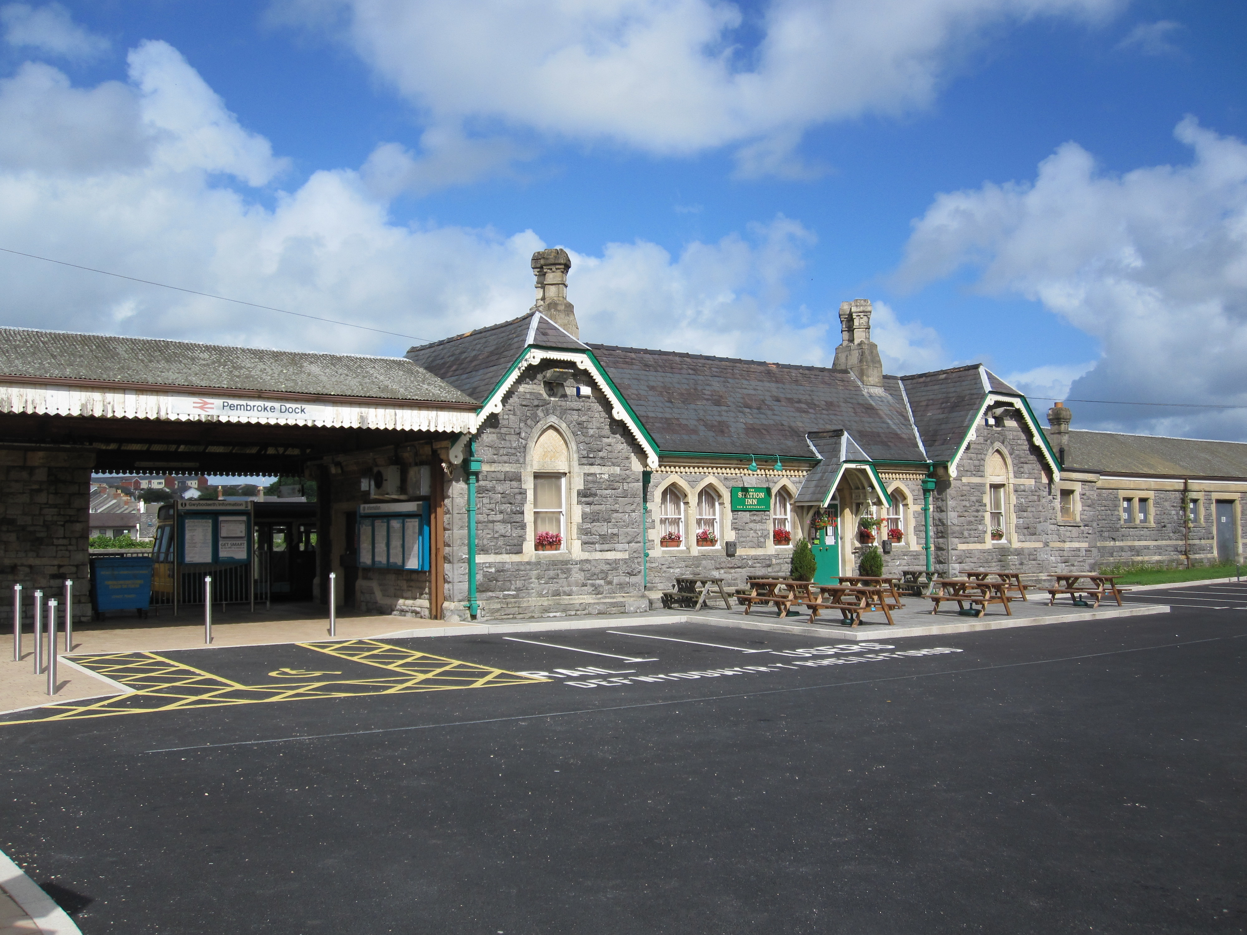 Now converted to a pub and restaurant, the aptly named "Station Inn" occupies most of the station building at Pembroke Dock.